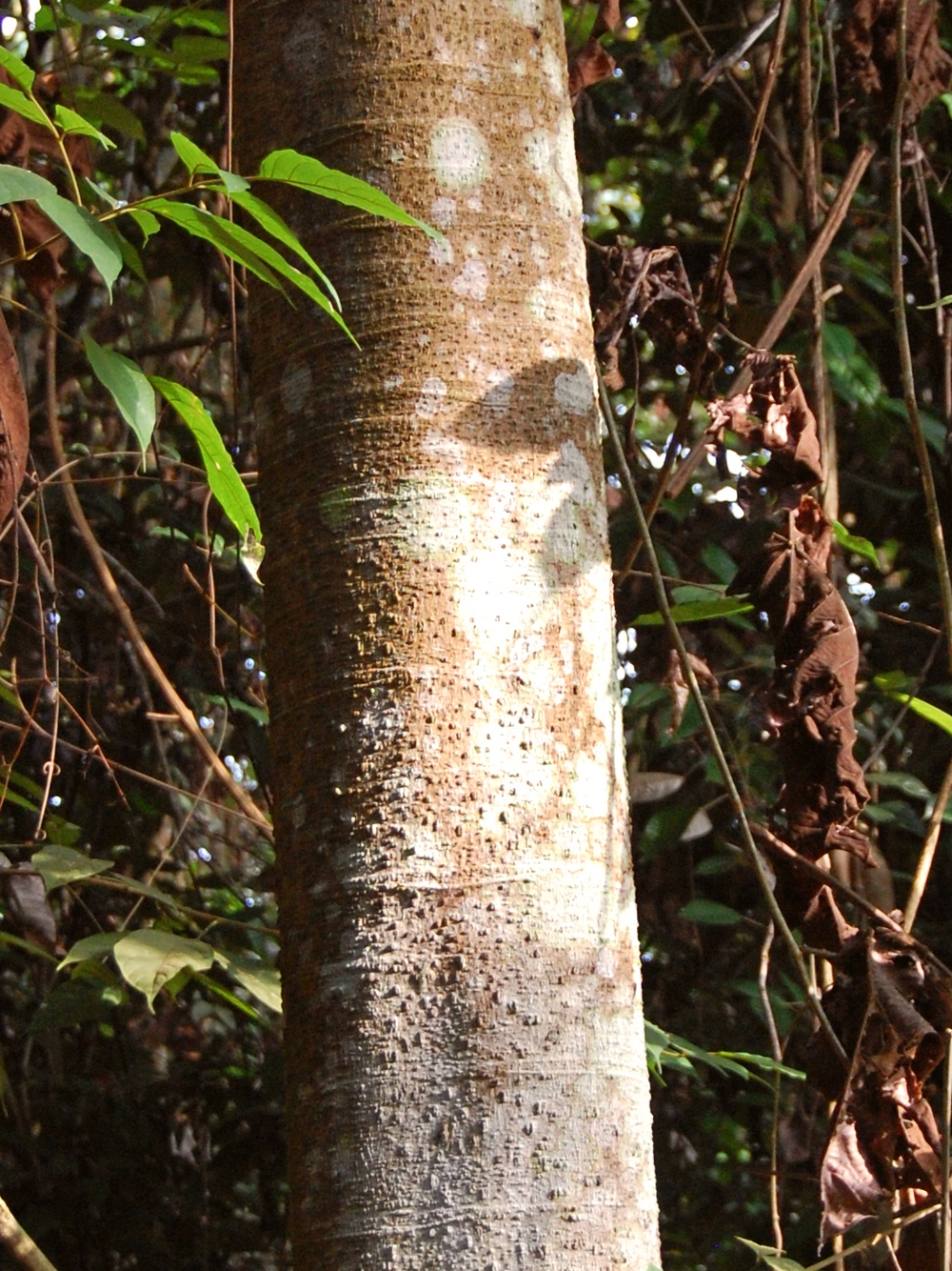 Macaranga gigantea; bole and bark. From Seruyan, Central Kalimantan, Indonesia.